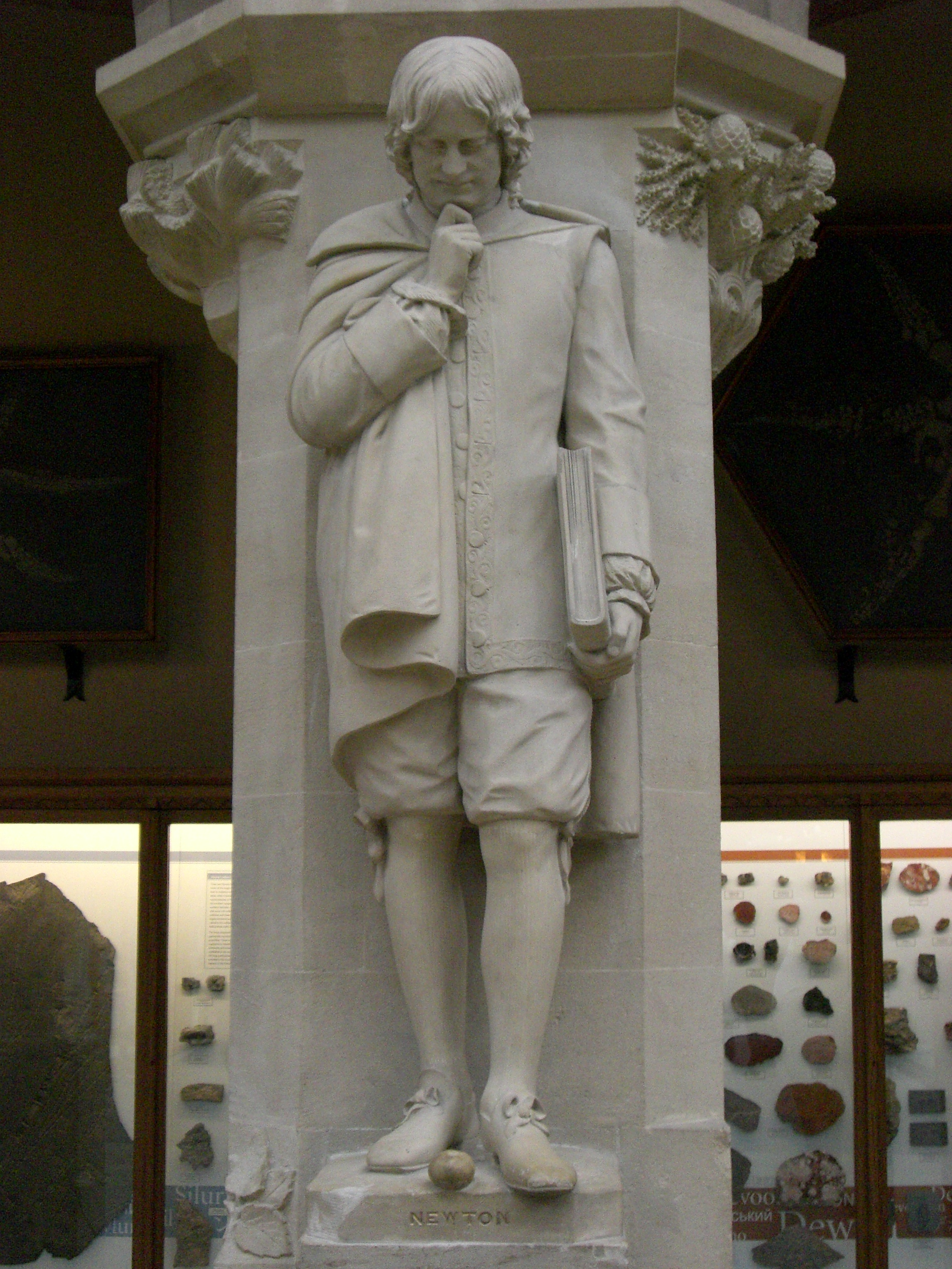 Statue of Isaac Newton at the Oxford University Museum of Natural History. Note apple.